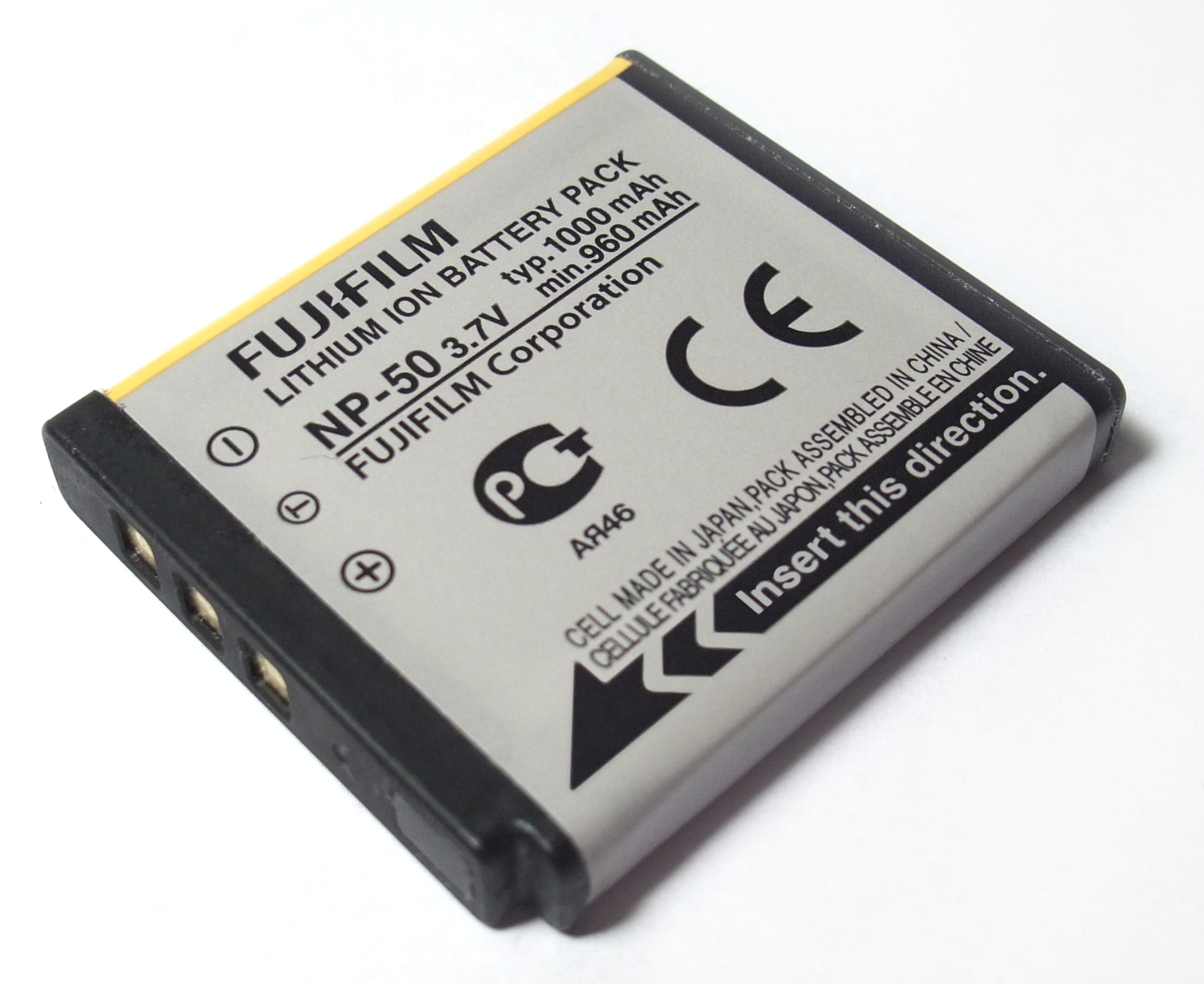 Fujifilm 3.7V Lithium-ion battery pack NP-50.